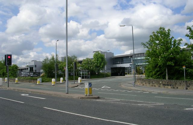 First Direct - Wakefield Road